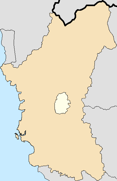 Location map of Ipoh, the capital city of the Malaysian state of Perak.